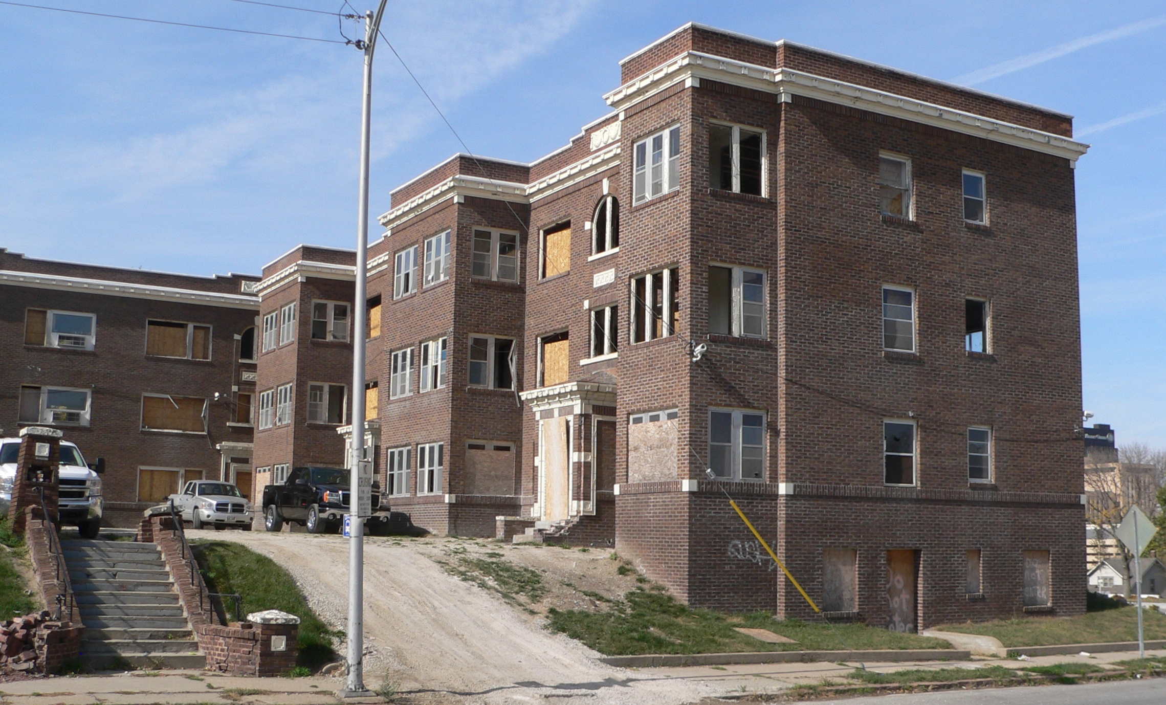 Selma Terrace apartments, located at southwest corner of Park and St. Mary's in Omaha, Nebraska.